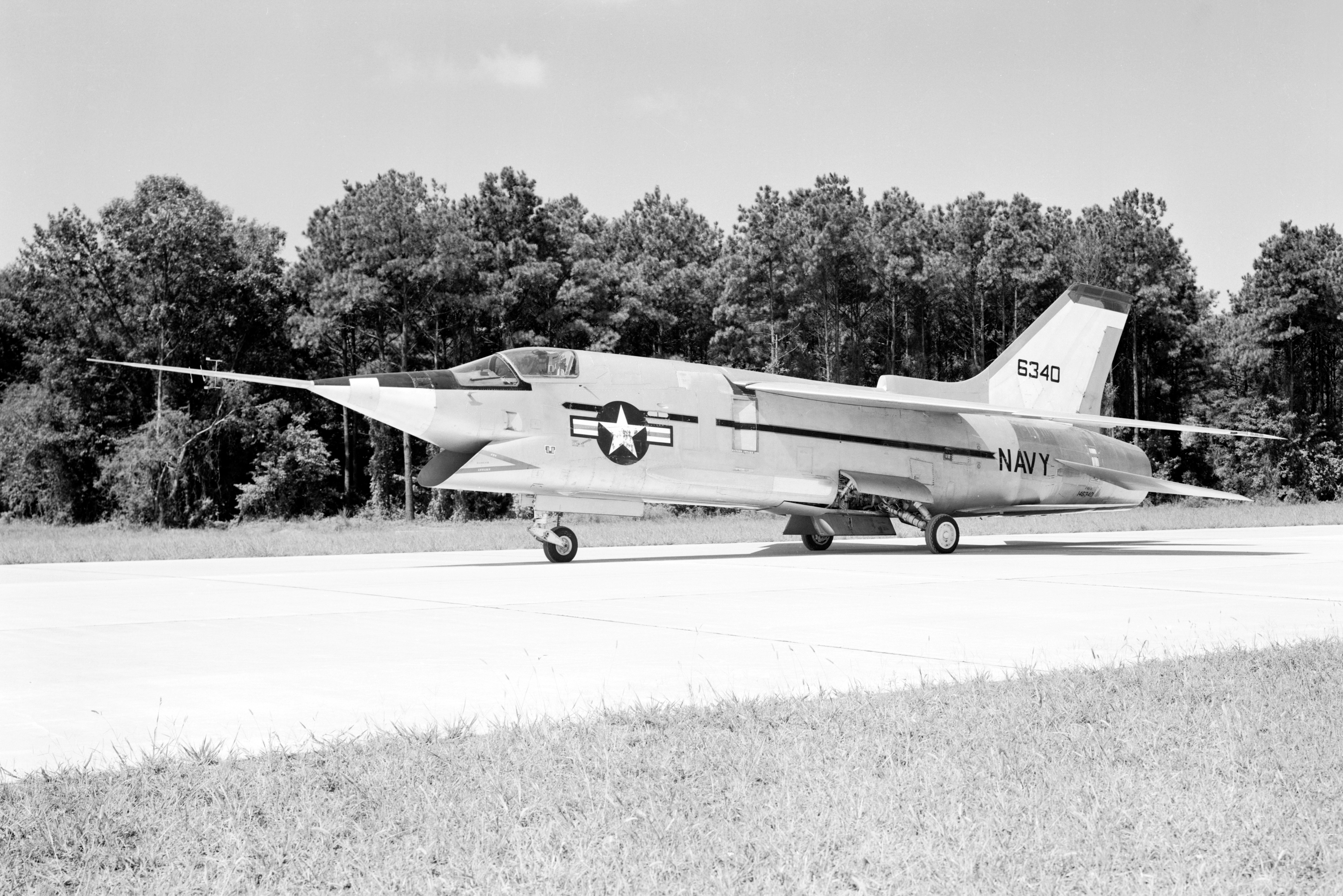 A Vought XF8U-3 Crusader III aircraft (BuNo 146340) at the Wallops Island Flight Test Range, on 10 September 1959. Official description: Crusader on runway. Navy aircraft number 6340. L59-6101 caption: "The navy's Vought XF8U-3 Supersonic Fighter was an entirely new design as compared to the earlier F8U Crusader series. This jet plane lost in competition with the McDonnell F4H, however, and was never put into production. Langley used the XF8U-3 in some of the first flight measurements of sonic boom intensity." Photograph published in Engineer in Charge A History of the Langley Aeronautical Laboratory, 1917-1958 by James R. Hansen. Page 507. Caption: "Chance Vought F8U-3 airplane used in sonic boom investigation at Wallops, June-August 1959." Photograph published in A New Dimension; Wallops Island Flight Test Range: The First Fifteen Years by Joseph Shortal - A NASA publication (page 672).